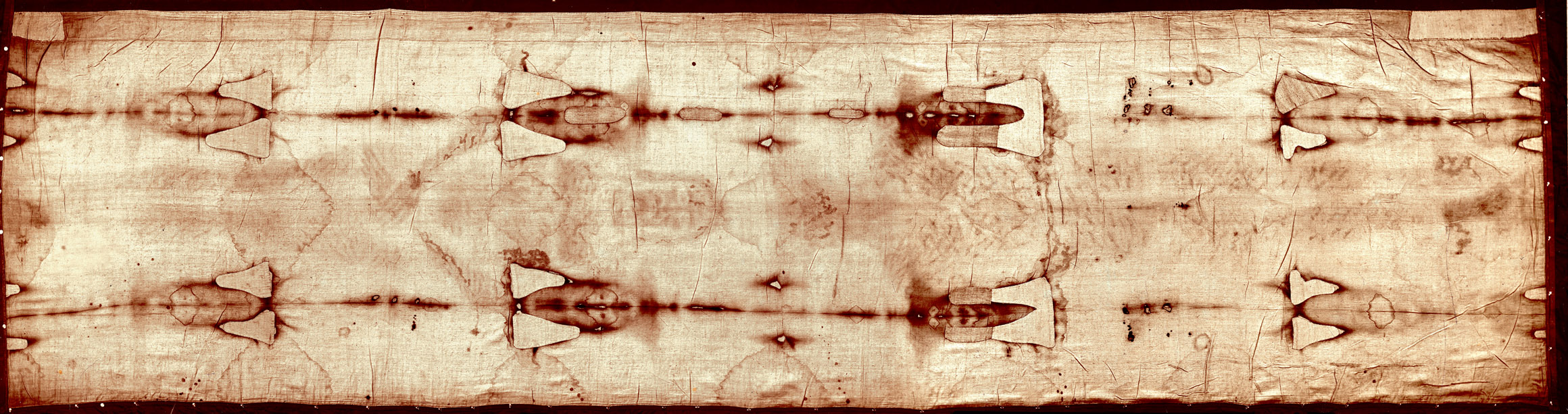 Full-length photograph of the Shroud of Turin which is said to have been the cloth placed on Jesus at the time of his burial.